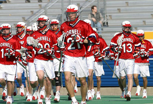 This is a photo of George Boiardi leading the Cornell lacrosse team onto the field at Hofstra University in 2004. Boiardi tragically died later in the season in a game against SUNY Binghampton